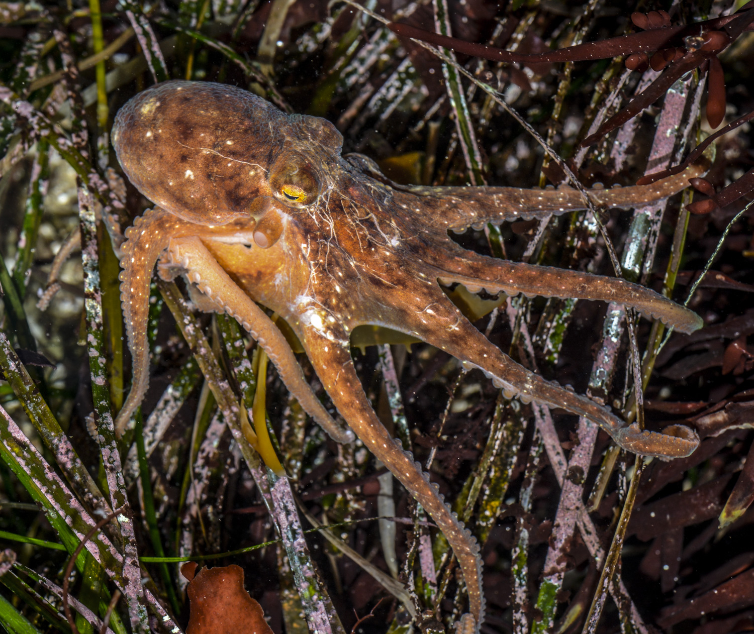 Perhaps a Red Octopus? Marlin yelled at a gull and saved its life, as it dropped it, and we were able to photograph it, and then put it in a safe place. One lucky mollusk!